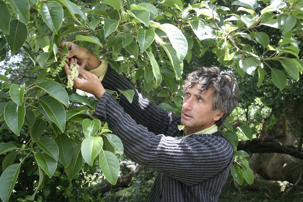 Ombú Phytolacca dioica foliage and flowers, Uruguay. Marcos Oliveria showing us the difference in the different Ombú flowers.